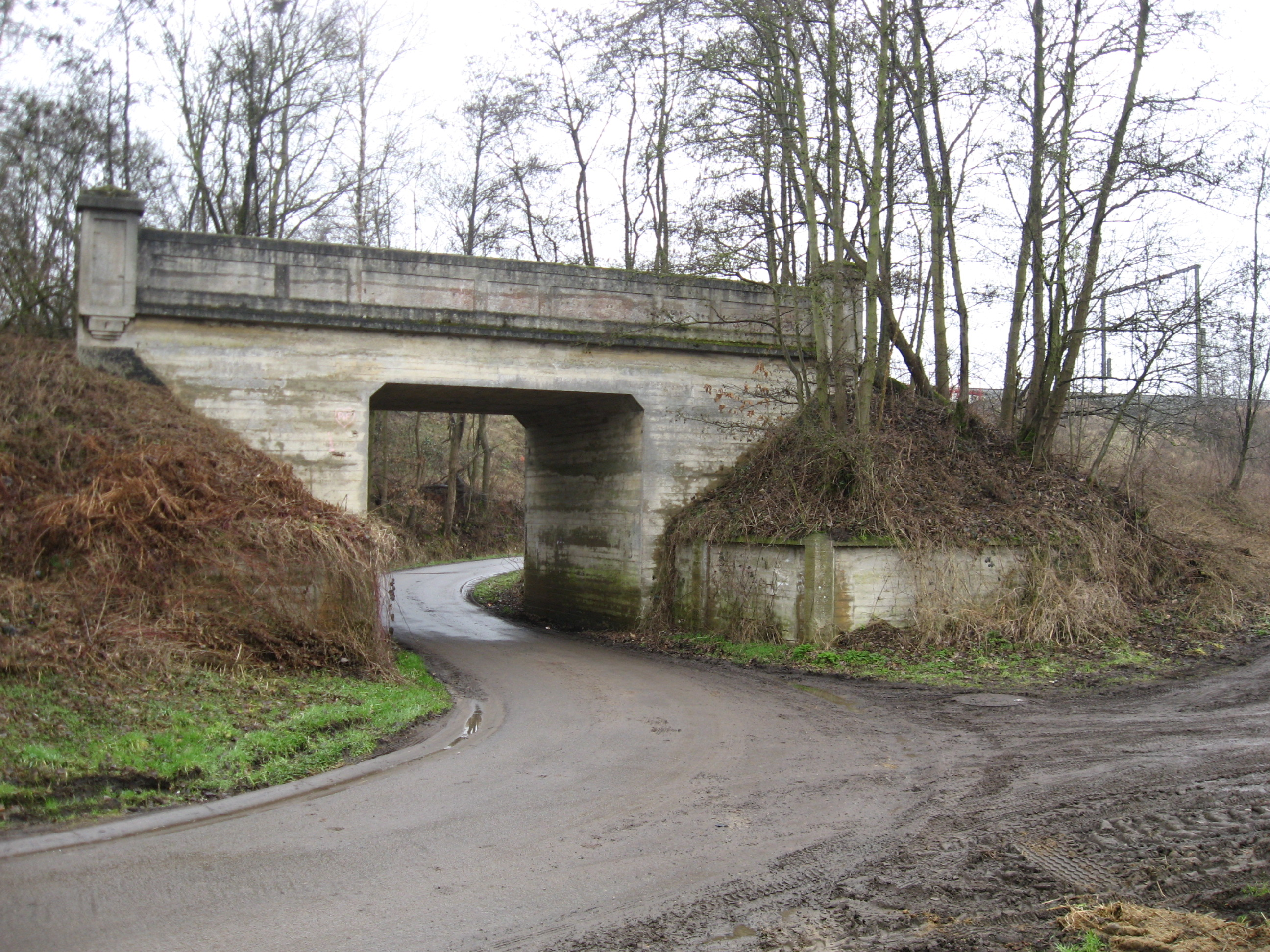 Disused railway bridge by Essene-Lombeek. Was carrying the single connecting line curve between the old line Brussel Nord - Denderleeuw and the expresline 50A Brussel South - Ghent. This connection was no longer used when the Brussel North South line opened. In the background the expresline Brussels Midi - Ghent